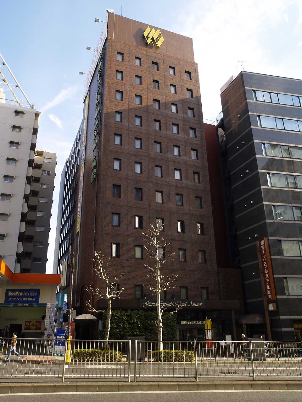 Ginza Capital Hotel, managed by Hato Bus.